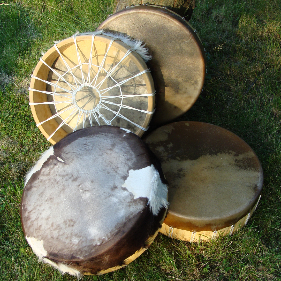 Współcześnie wykonane bębny szamańskie